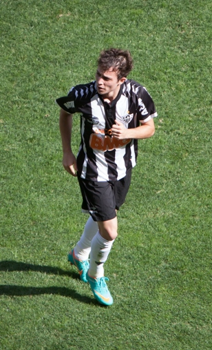 Brazilian footballer Bernard while playing for Atlético Mineiro in 2012.